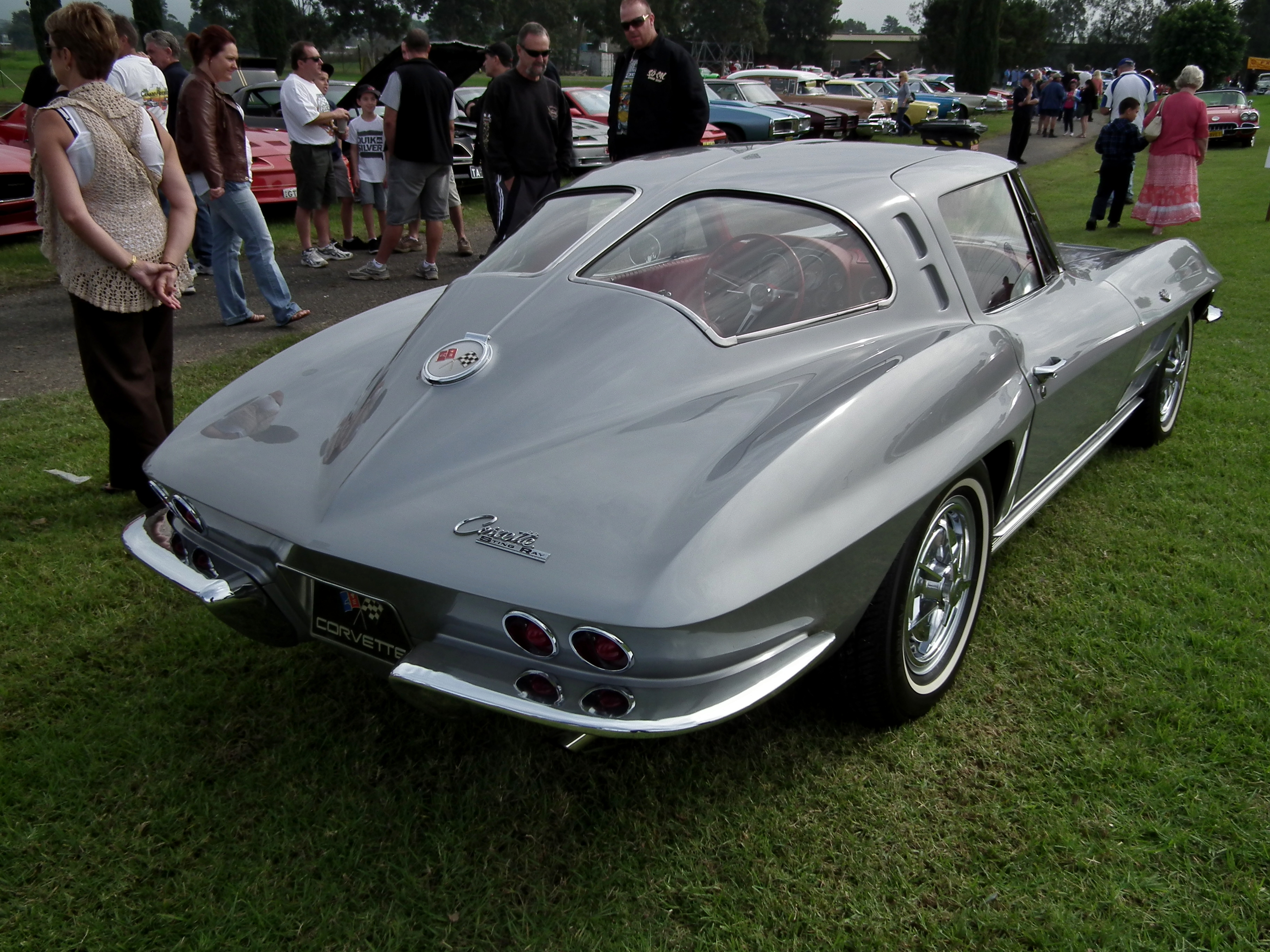 1963 Chevrolet C2 Corvette Stingray coupe. Taken at the General Motors Display Day, held in the grounds of Penrith Panthers Club, Penrith NSW.